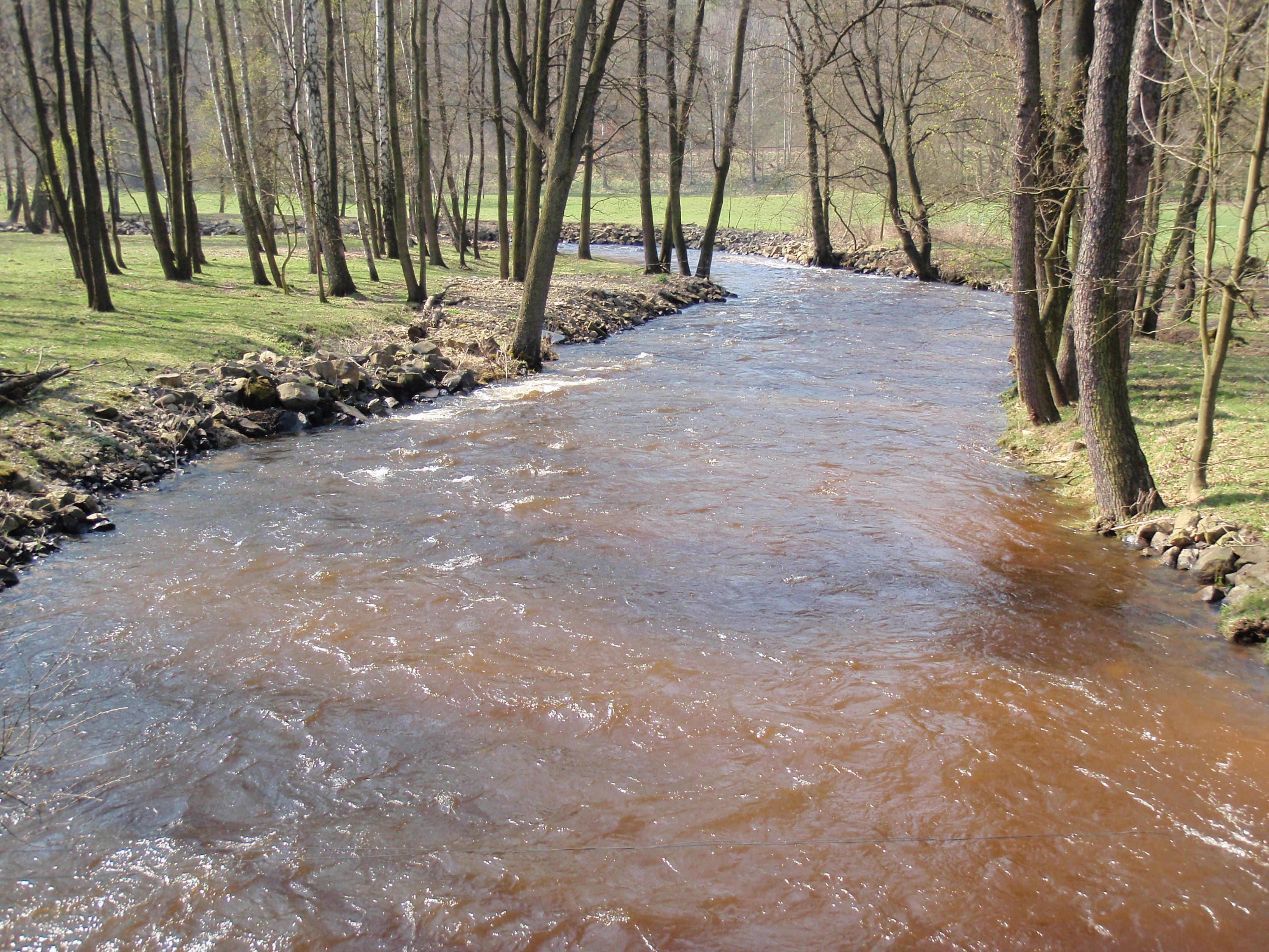 Rolava River